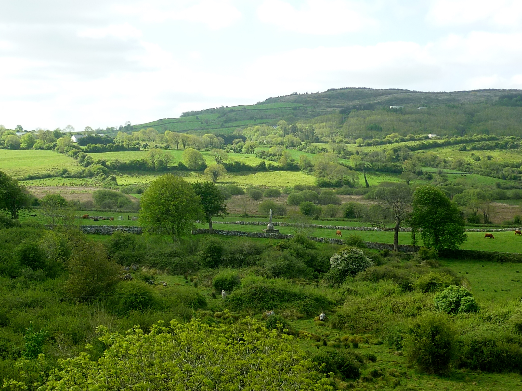 County Clare, Midlands Ireland